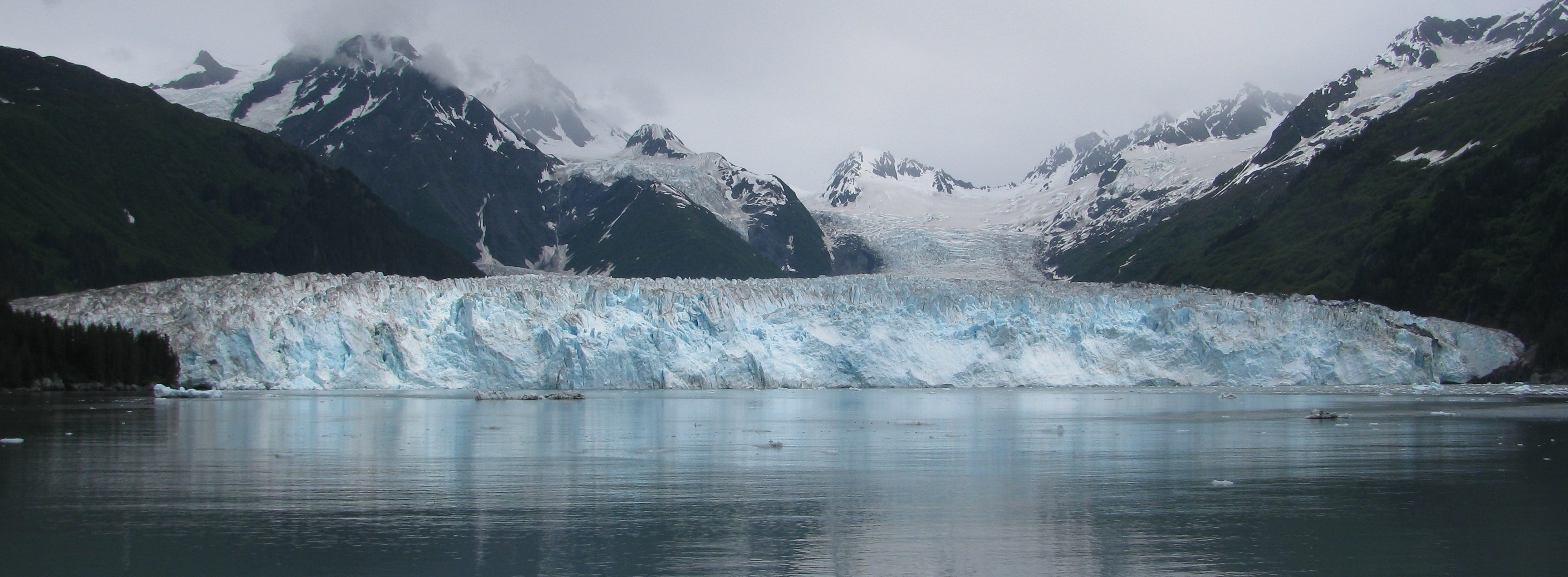 Meares Glacier in south central Alaska viewed from Unakwik Inlet.